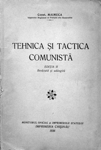 Coperta ediției a II-a a cărții "Tehnica si tactica comunista".